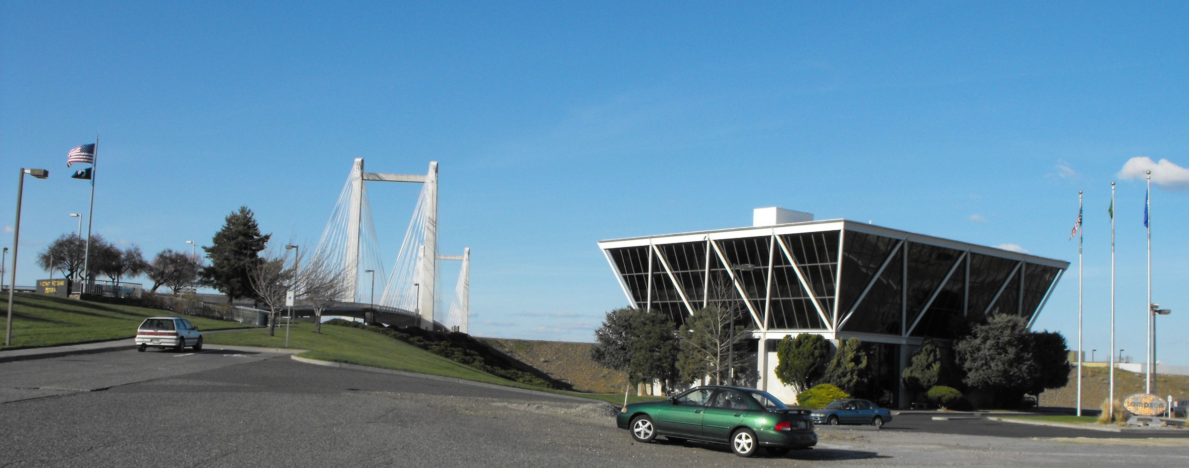 Kennewick, Washington. Cable_bridge, on the left Tri-cities Vietnam_memorial.jpg